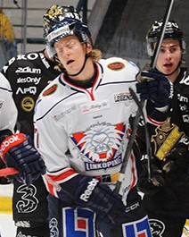 Ice hockey player Oscar Sundh in 2014.